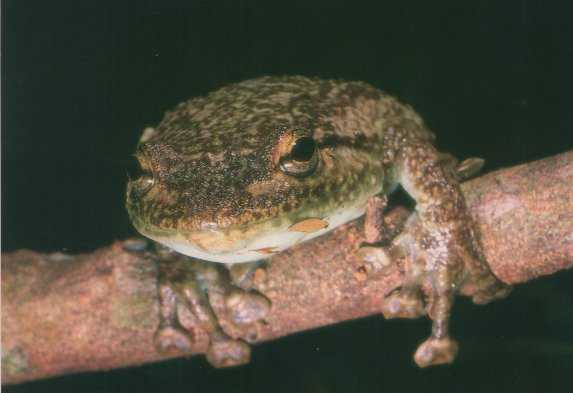 Platypelis grandis